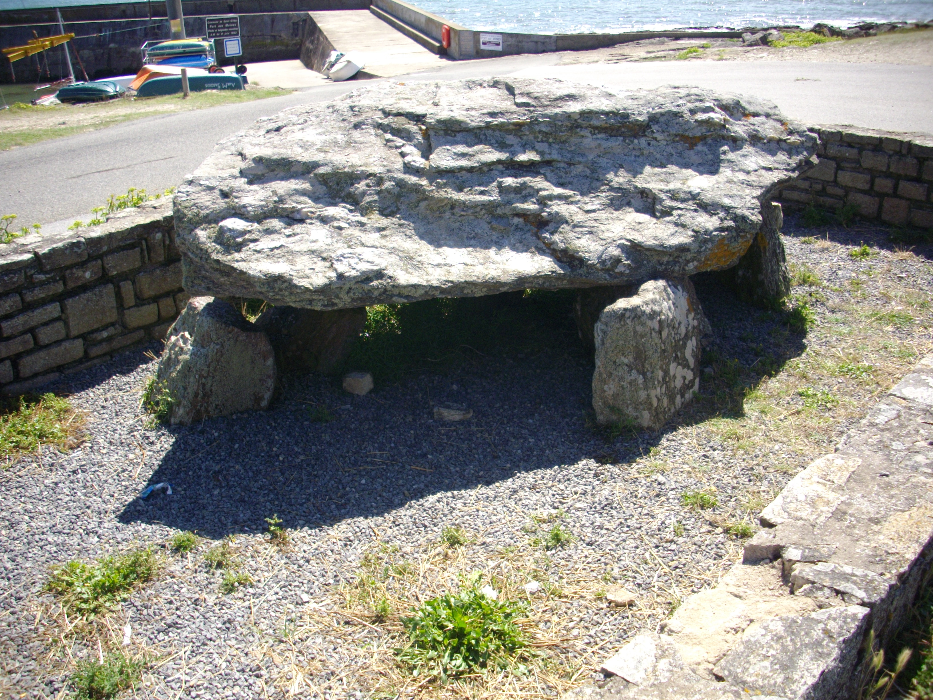 Dolmen in Port aux Moines (Saint-Gildas-de-Rhuys, Morbihan, .